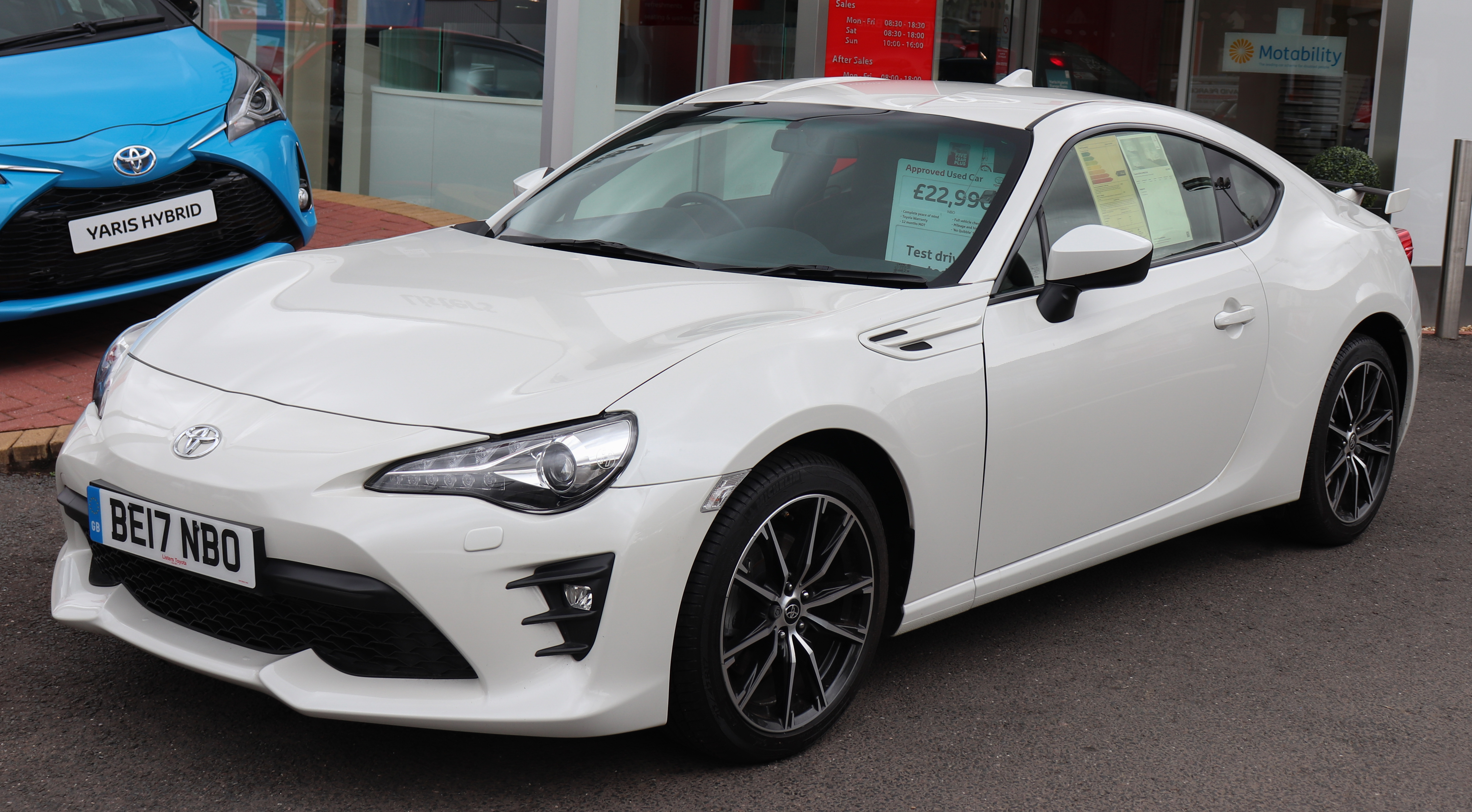 2017 Toyota GT86 PRO D-4S 2.0 Front Taken in Stratford-upon-Avon